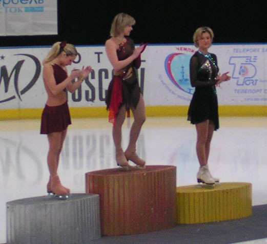 Ladies Podium of Russian Nationals 2004